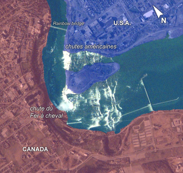 Space view of the Niagara falls, with French caption